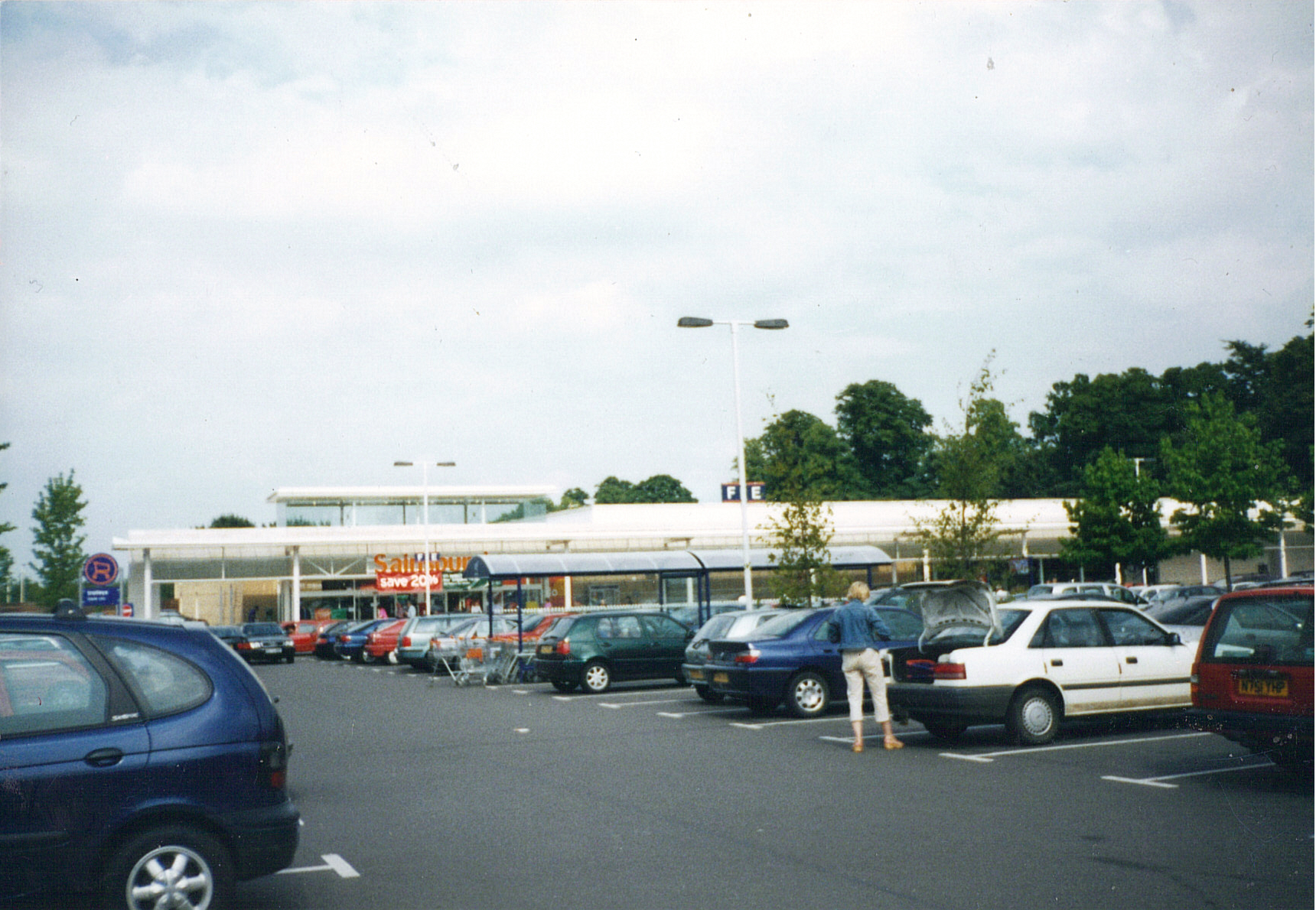 I took this picture of the Sainsbury's supermarket in Banbury during 2000. It was enlarged in 2009-2010.